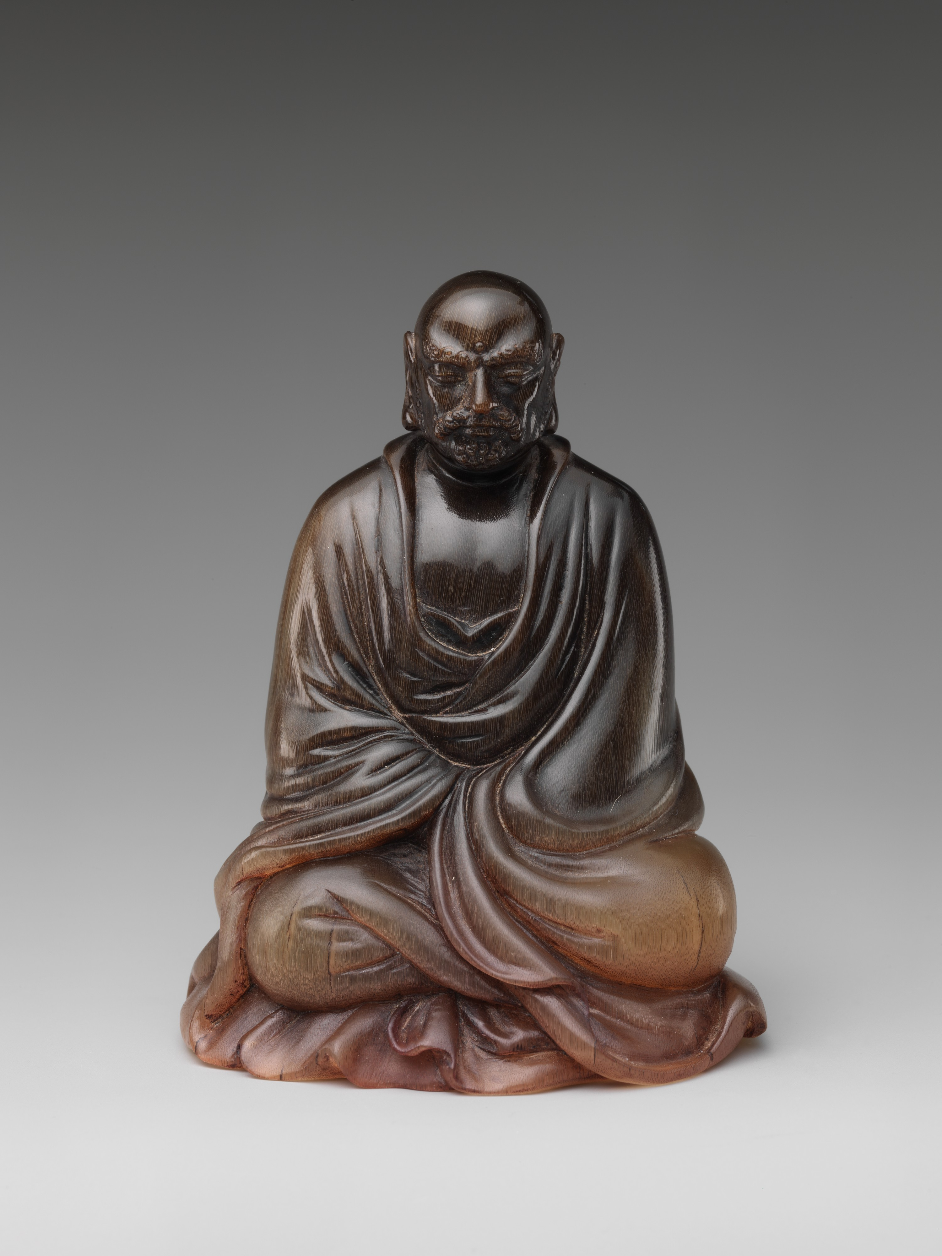 China; Figurine; Horn